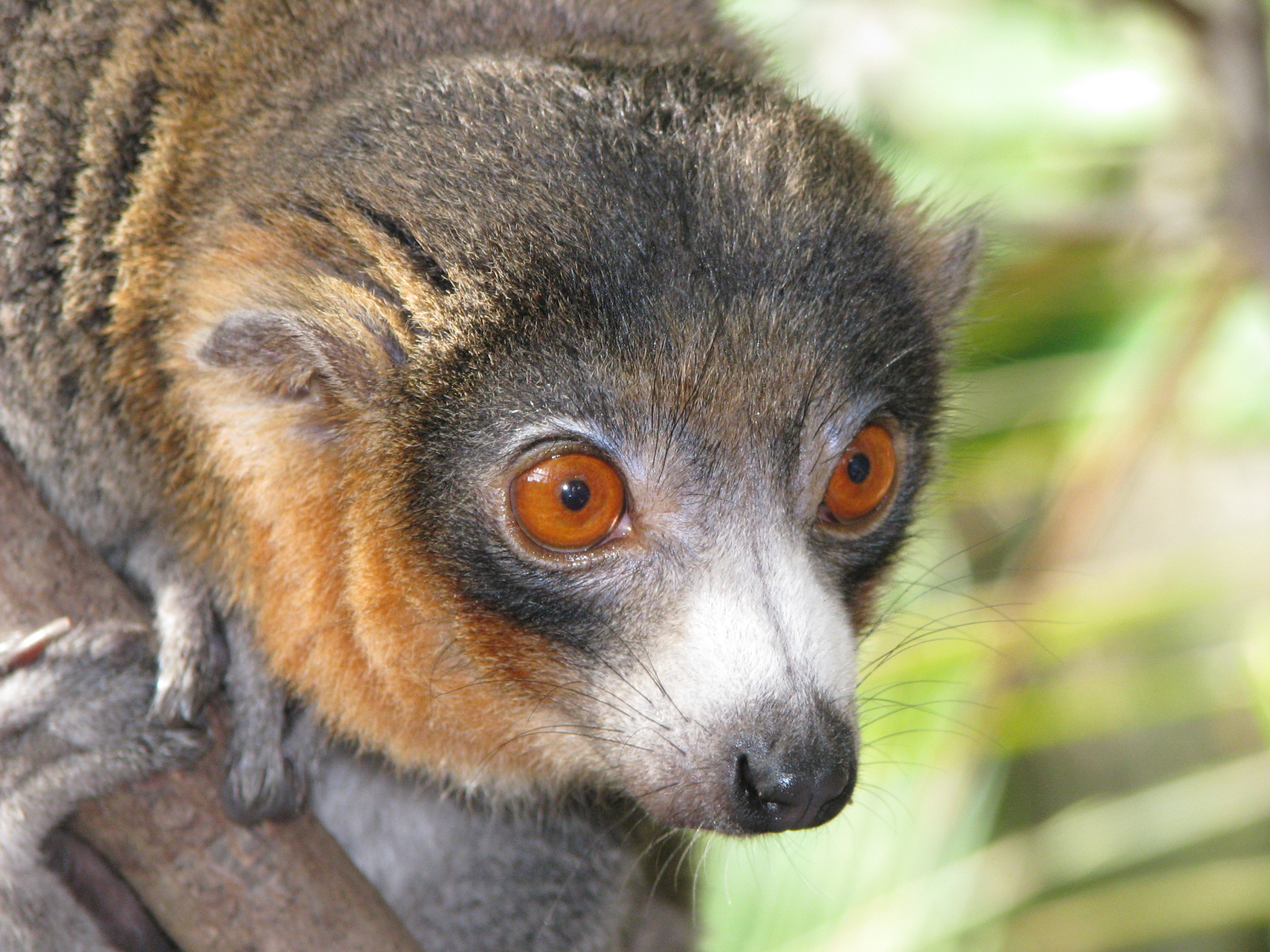 a male mongoose lemur (Eulemur mongoz)